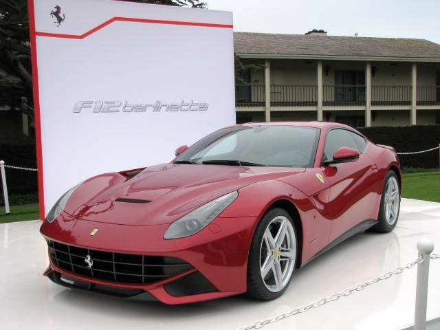 North American introduction of the Ferrari F12berlinetta at the 2012 Pebble Beach Concours d'Elegance